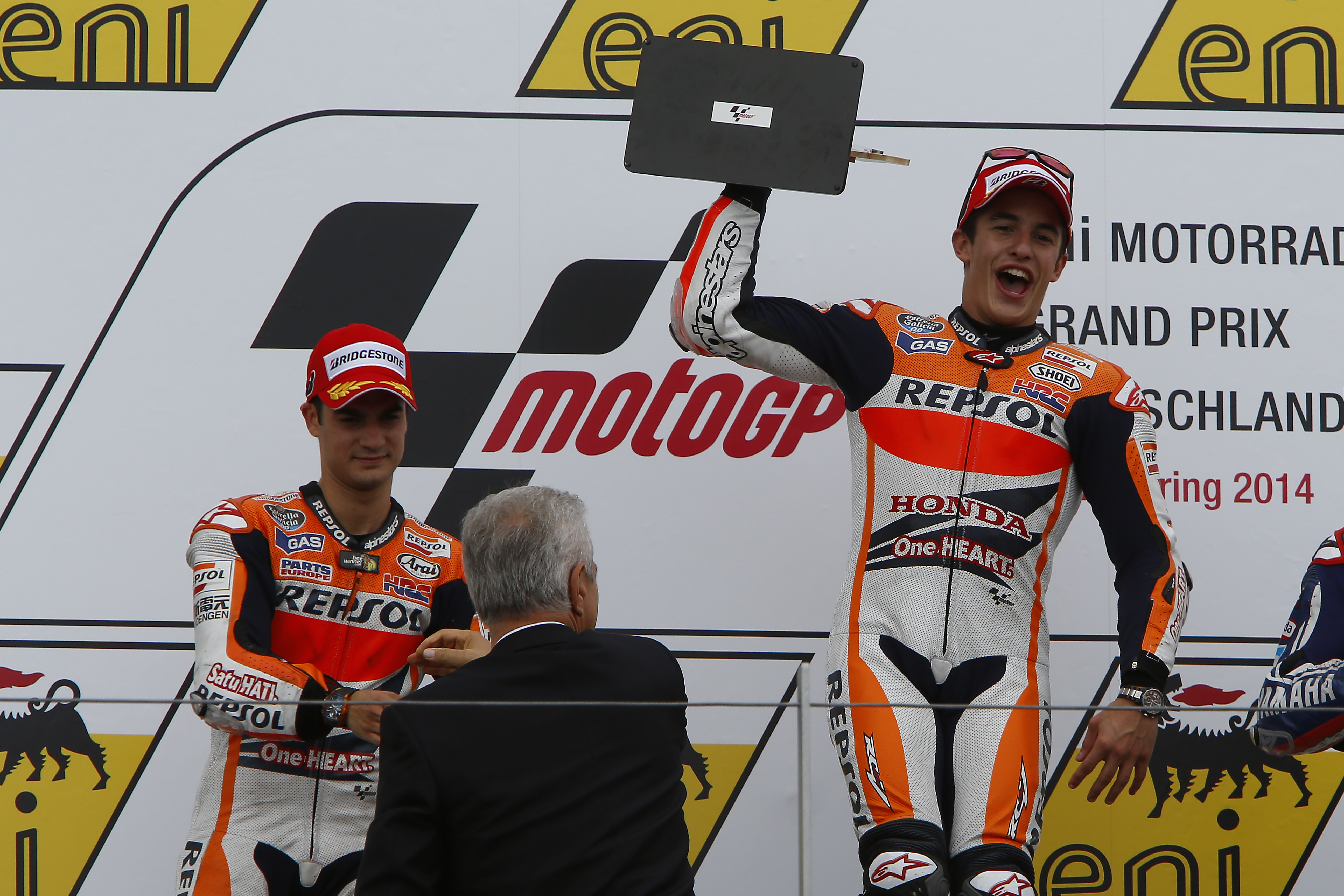 Dani Pedrosa and Marc Márquez (holding his trophy), celebrating on the podium after finishing in second and first place at the 2014 German Grand Prix.